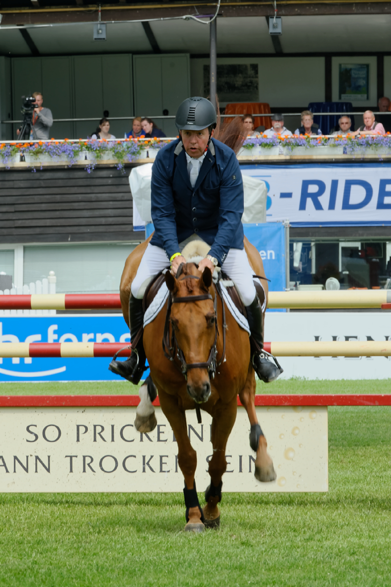 CSIYH* int. Springprüfung nach Strafpunkten und Zeit Internationales Pfingstturnier Wiesbaden 2015 The making of this document was supported by the Community-Budget of Wikimedia Germany.